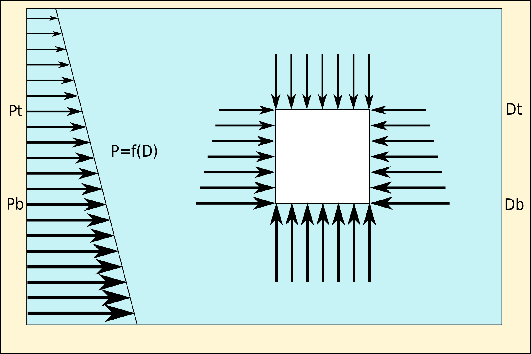 Pressure distribution on an immersed cube Blanc